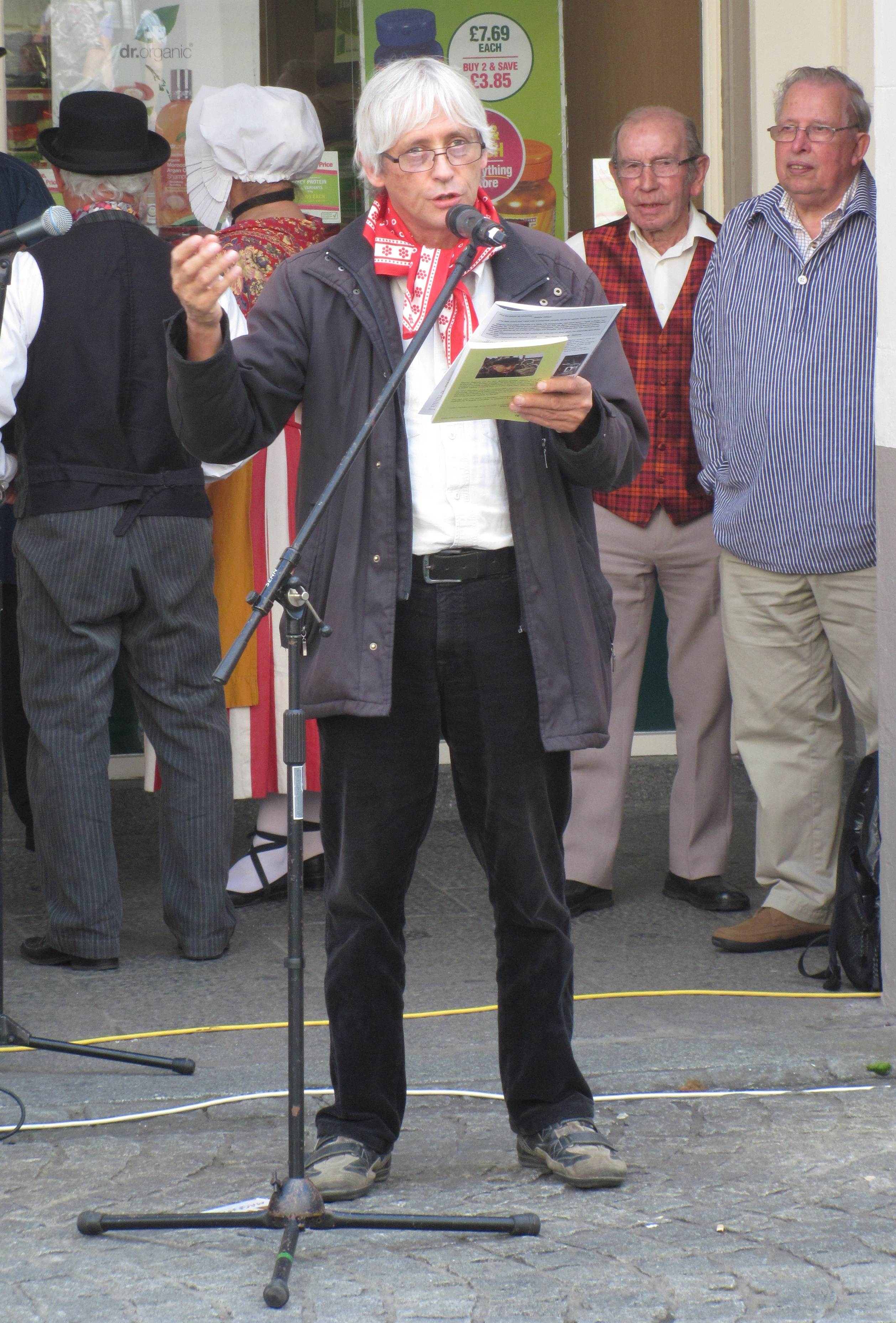 Fête Nouormande - Fête des Rouaisouns, Saint Peter Port, Guernsey, 15 September 2012